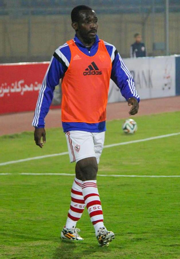 Mohamed Koffi training with Zamalek SC before a match against Wadi Degla FC.; Petro Sport Stadium